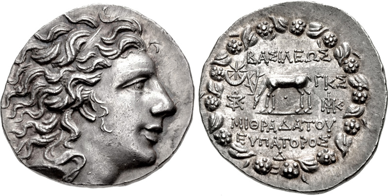 KINGS of PONTOS. Mithradates VI Eupator. Circa 120-63 BC. AR Tetradrachm (31mm, 16.87 g, 11h). Pergamon mint. Dated month 4 of 223 BE (January 74 BC). Diademed head right / Stag grazing left; BAΣIΛEΩΣ above, MIΘPAΔATOY/EYΠATOPOΣ in two lines below; to left, star-in-crescent above monogram; to right, ΓKΣ (year) above monogram; Δ (month) in exergue; all within Dionysiac wreath of ivy and fruit. Callataÿ dies D42/R1b (this coin); HGC 7, 340. Choice EF, toned. Struck from artistically engraved dies.